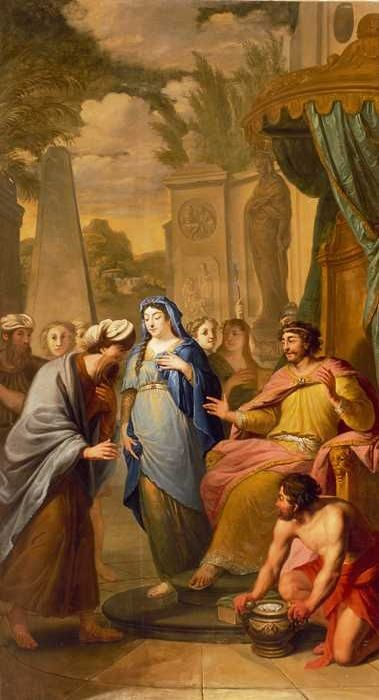 Abimelech returns Sarah to Abraham; painting by Elias van Nijmegen (1667-1755). Date: 1731